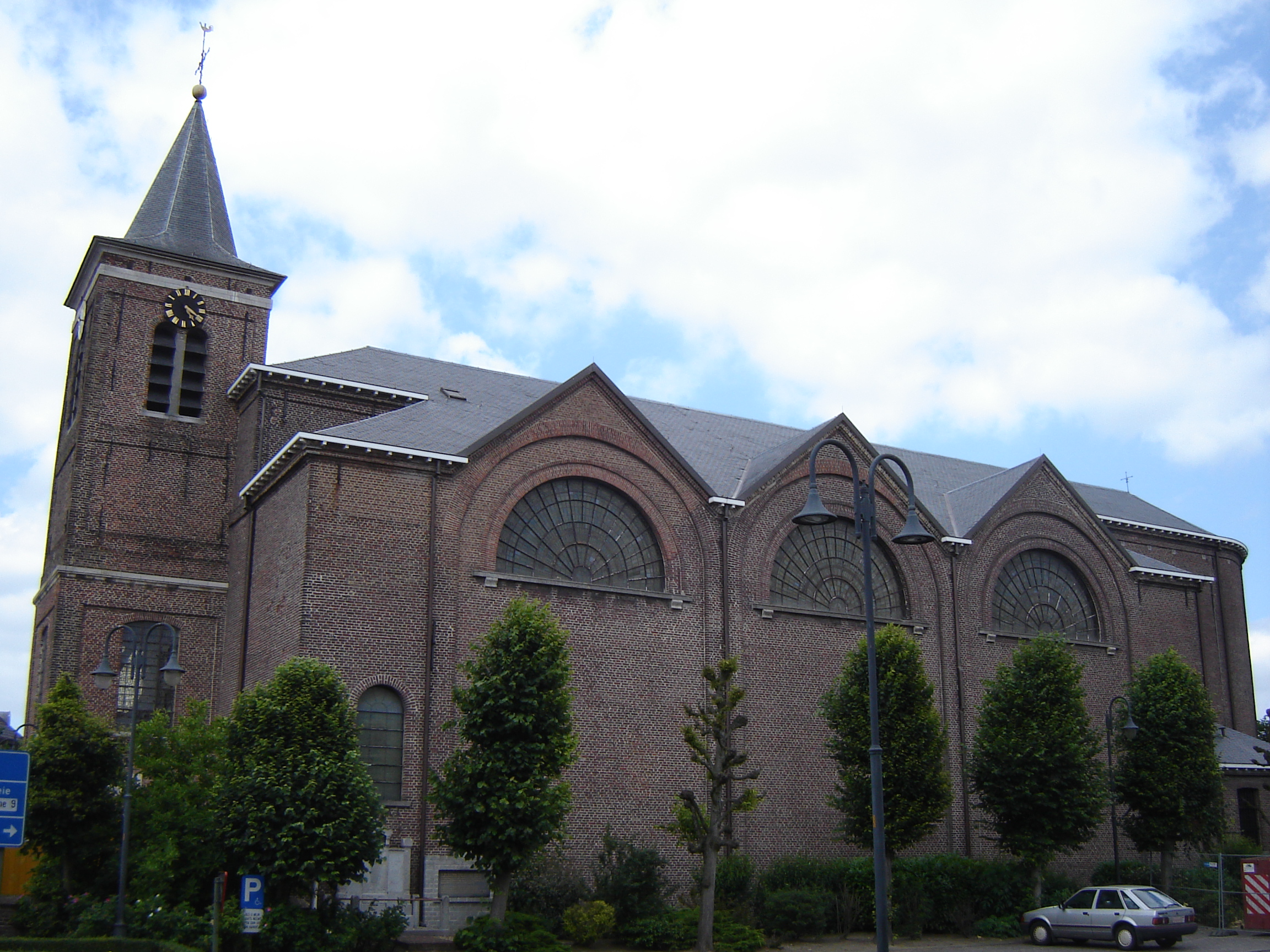 Church of Saint Martin in Desselgem. Desselgem, Waregem, West Flanders, Belgium